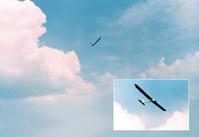 Test_Flight_of_“Soaring”_in_1994